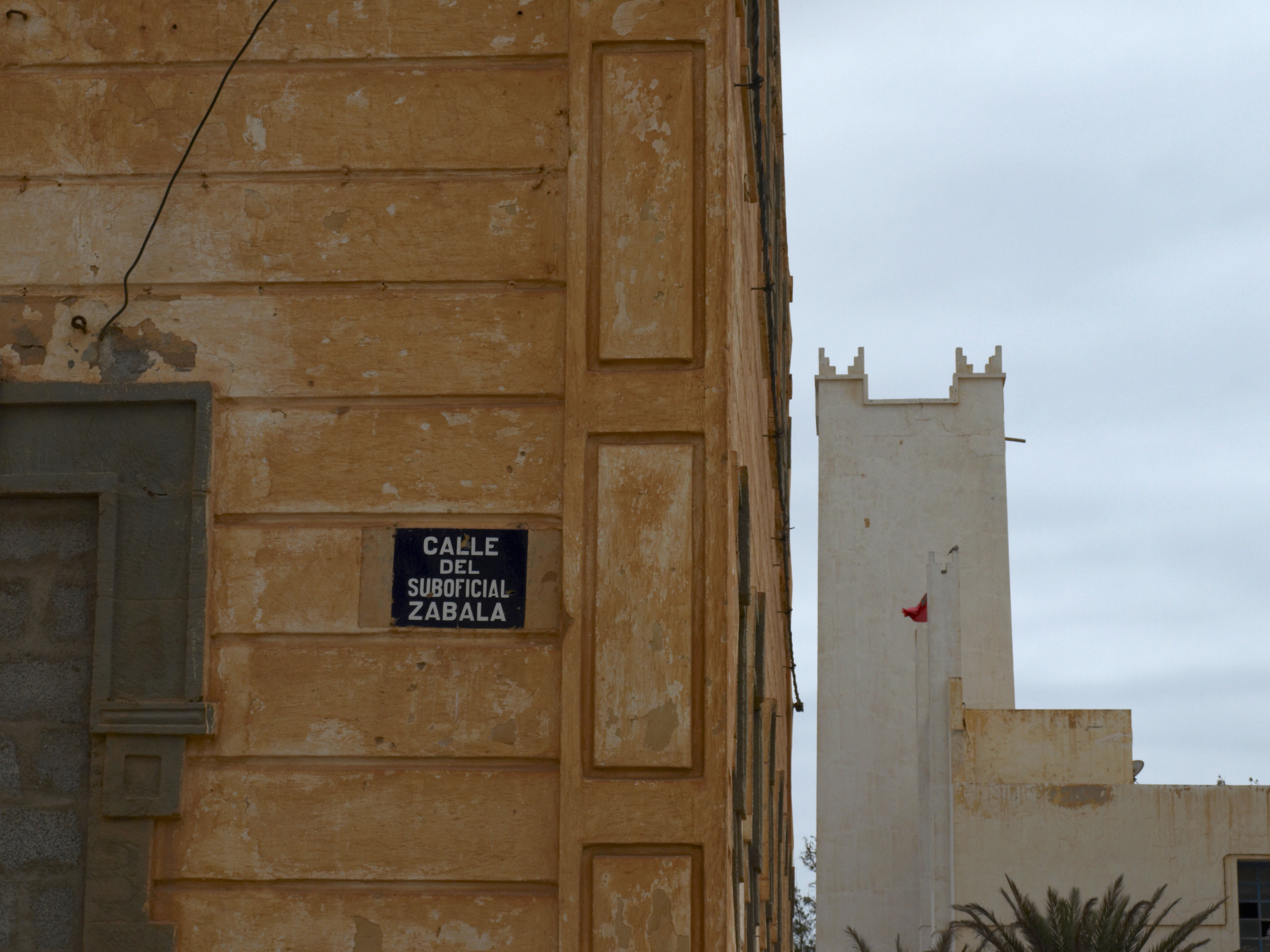 Spanish street sign in Sidi Ifni